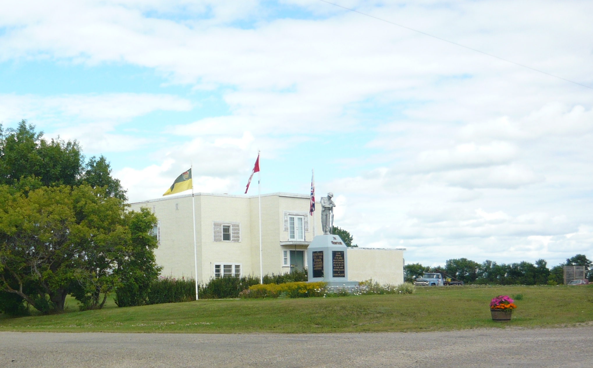 War memorial in Strongfield, Saskatchewan, Canada, at intersection of Broadway and Saskatchewan Avenue.